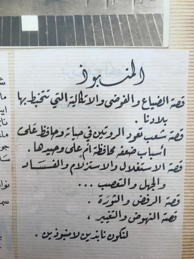 A short description of one of Said's plays. It was found in one of his old plays.